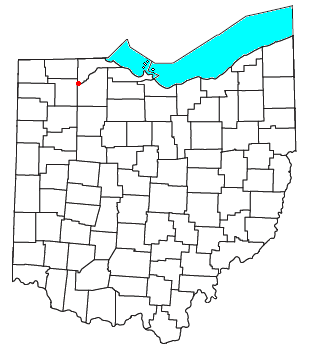 Locator map of the unincorporated community of Providence in Lucas County, Ohio, United States.